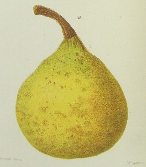 Beurré Superfin, A Mas.